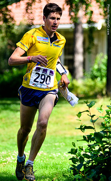 Oleksandr Kratov: World Championships 2013, Sprint Qualification